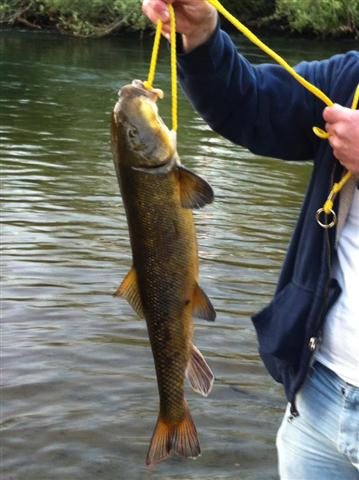 USA, Auburn, WA July 4th 2012 19inches, by Patrick Motschenbahcer